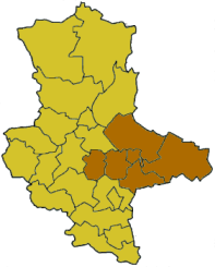 Map of Saxony-Anhalt highlighting the Dessau region